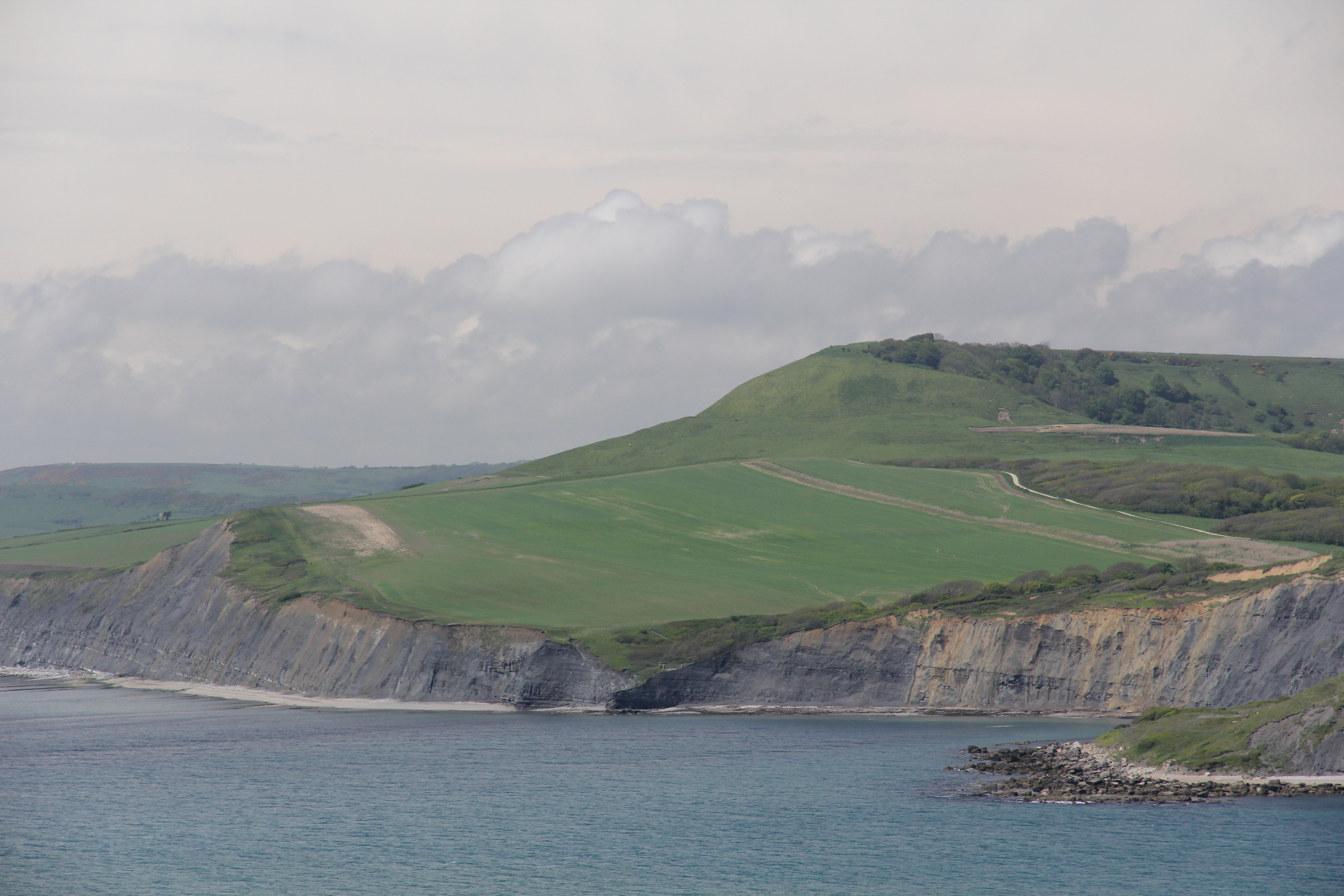 Swyre Head, the highest point of the Purbeck Hills in Dorset, England, seen from the SW Coast Path on the western side of St Aldhelm's Head. The tip of Egmont Point can be seen in the lower right corner with the bay of Egmont Bight behind. Swyre Wood runs up to the crest of the hill. The other woods are: Big Wood and Little Wood (centre right) and South Gwyle (the strip wood running from the cliff top, front centre, up to the right). Eldon Seat is the ridge in the centre of the picture, running up towards the tip of Big Wood.